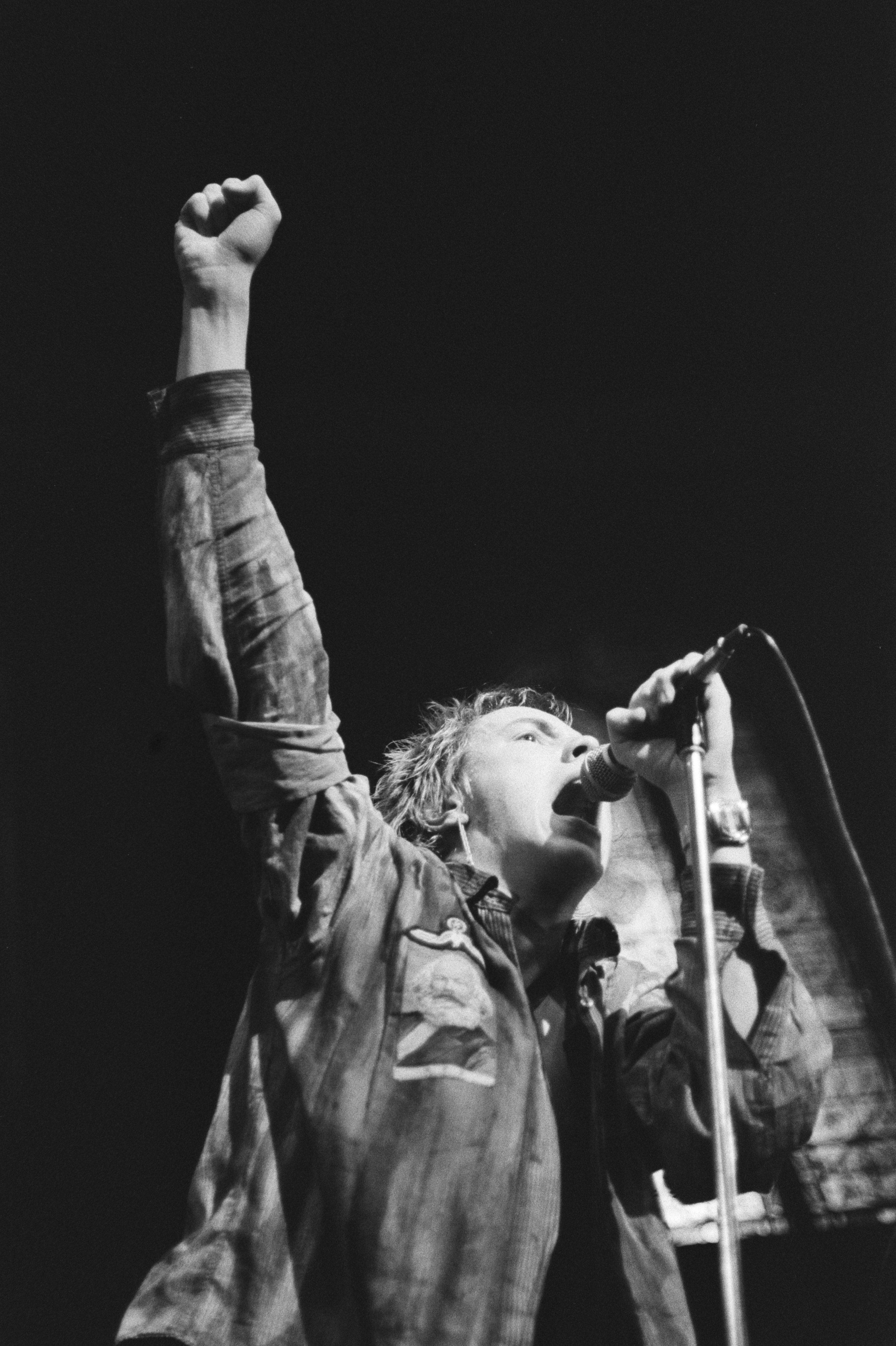 Sex Pistols perform in Paradiso, Amsterdam.